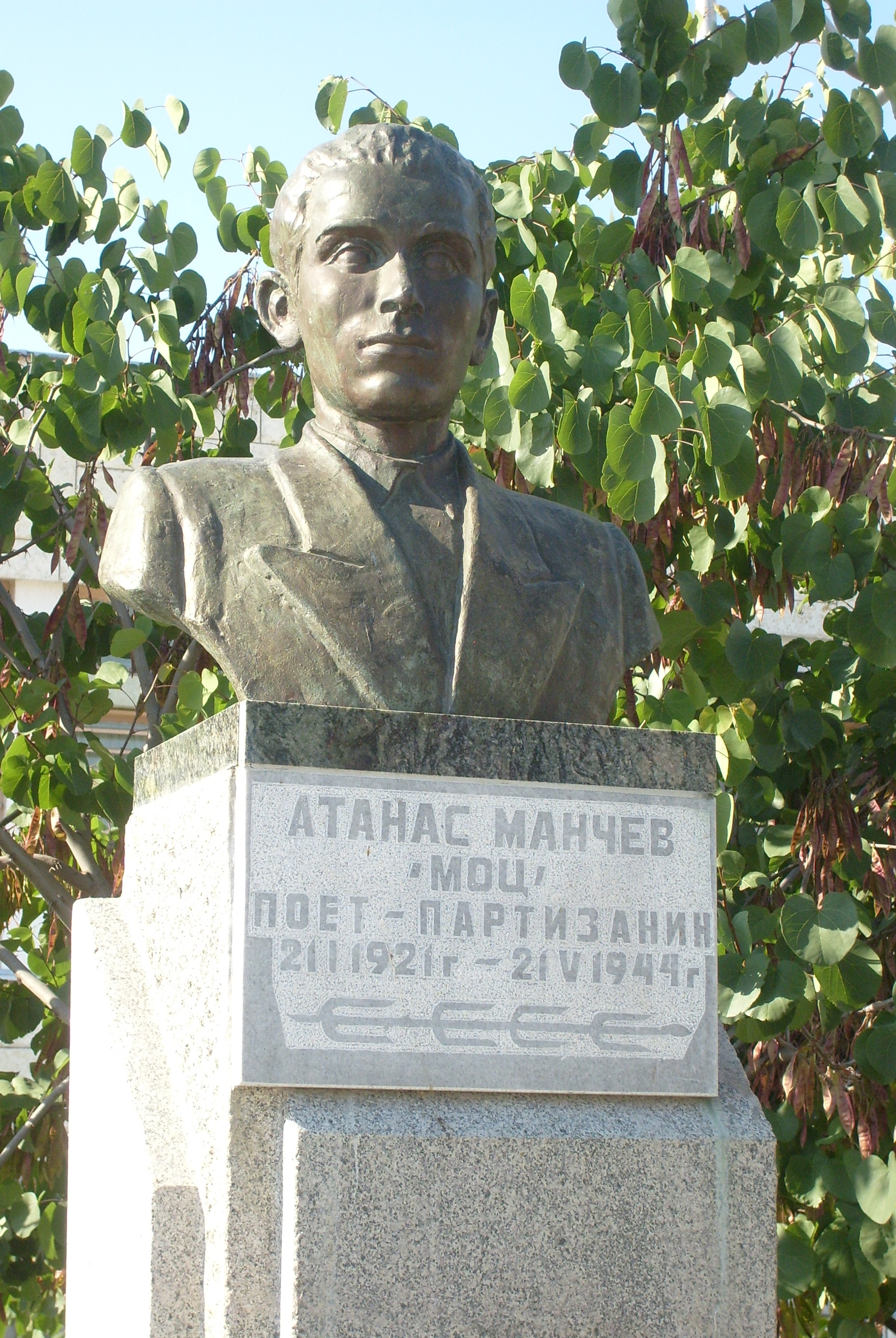 Bust of Atanas Manchev - bulgarian poet and revolutionar